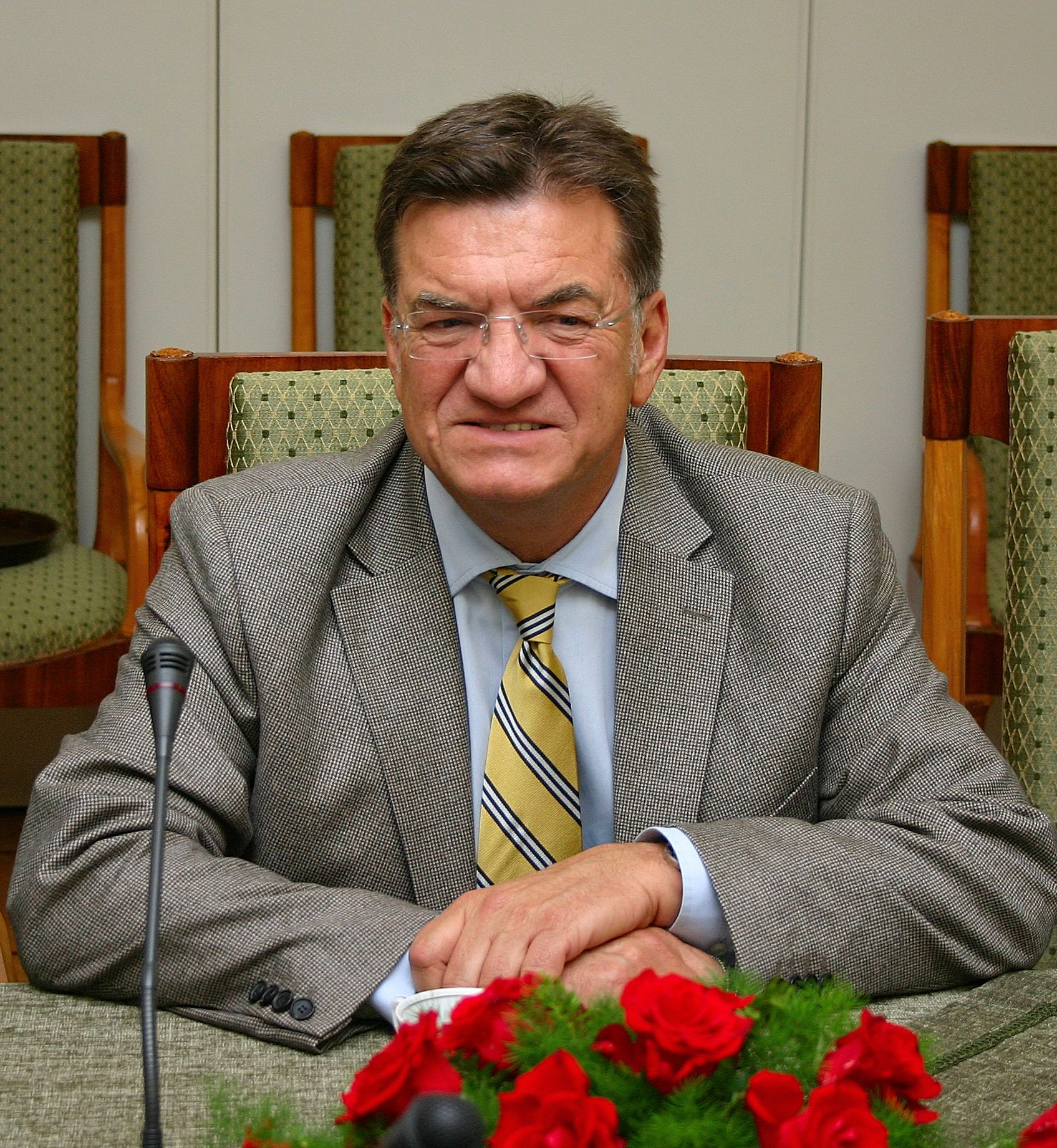 President of the Parliamentary Assembly of the Organization for Security and Co-operation in Europe Petros Efthymiou in the Polish Senate